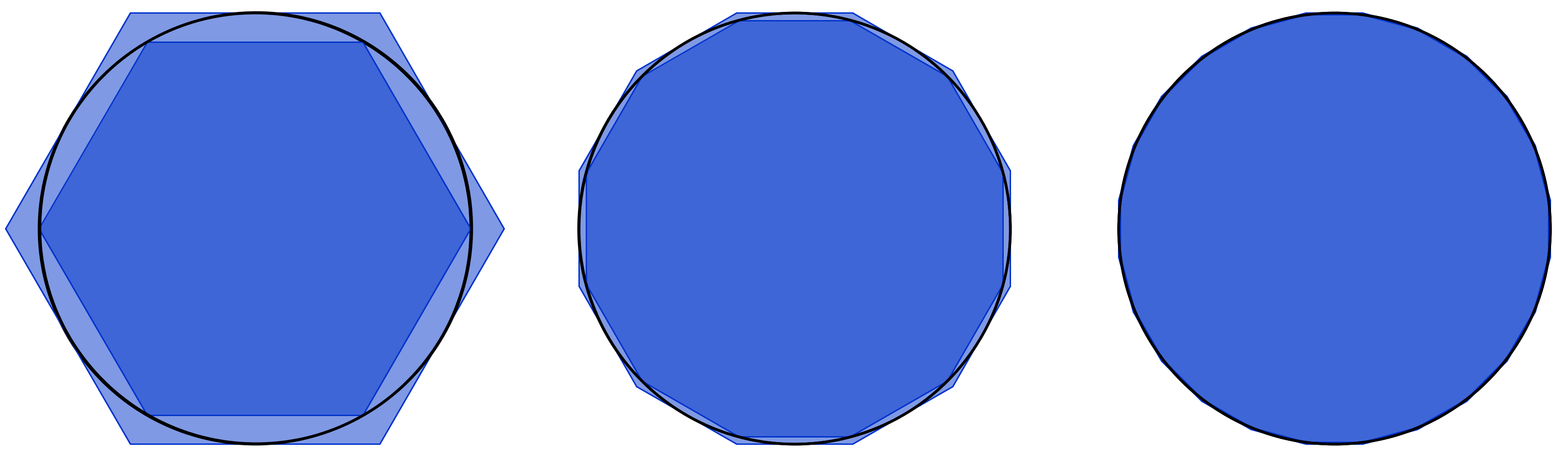 This image shows the approximation of the area of a circle by 3·2n-gons. With this method π can be estimated.